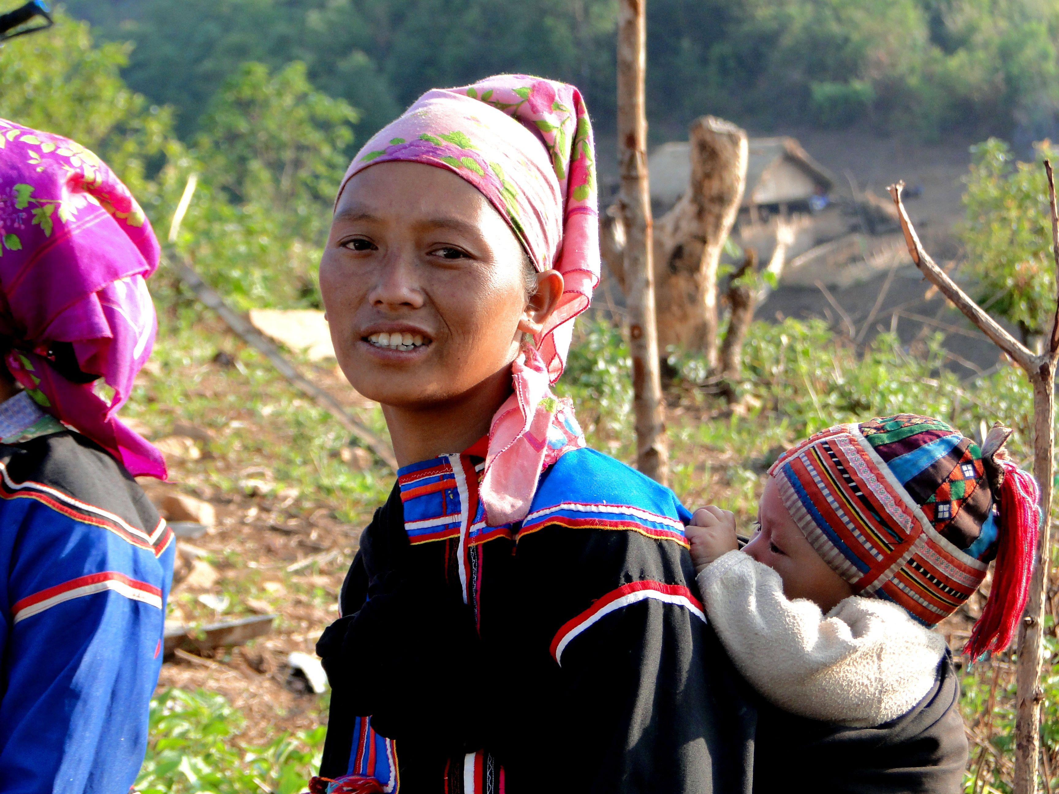 A Wa woman with her young child dressed in traditional clothing, one of those who benefited from an ECHO funded project to bring clean water and better sanitation to her remote village near the Burma-China border.